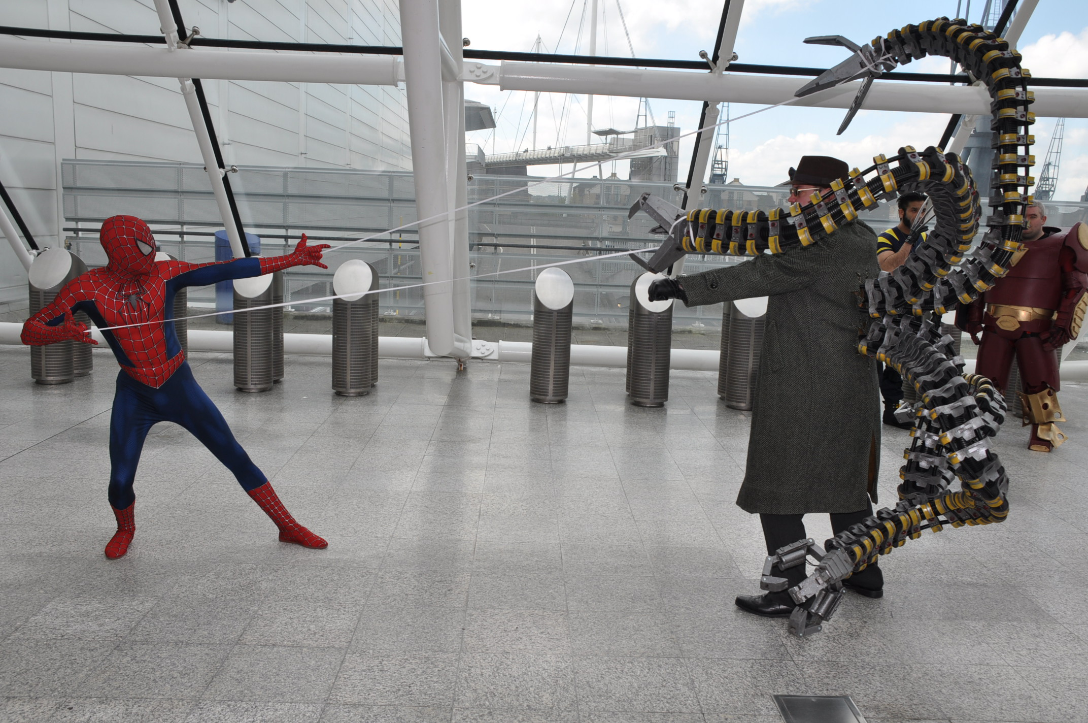 DSC_0231 Cosplay at the Summer 2013 MCM London Comic Con at the ExCeL Exhibition Centre.